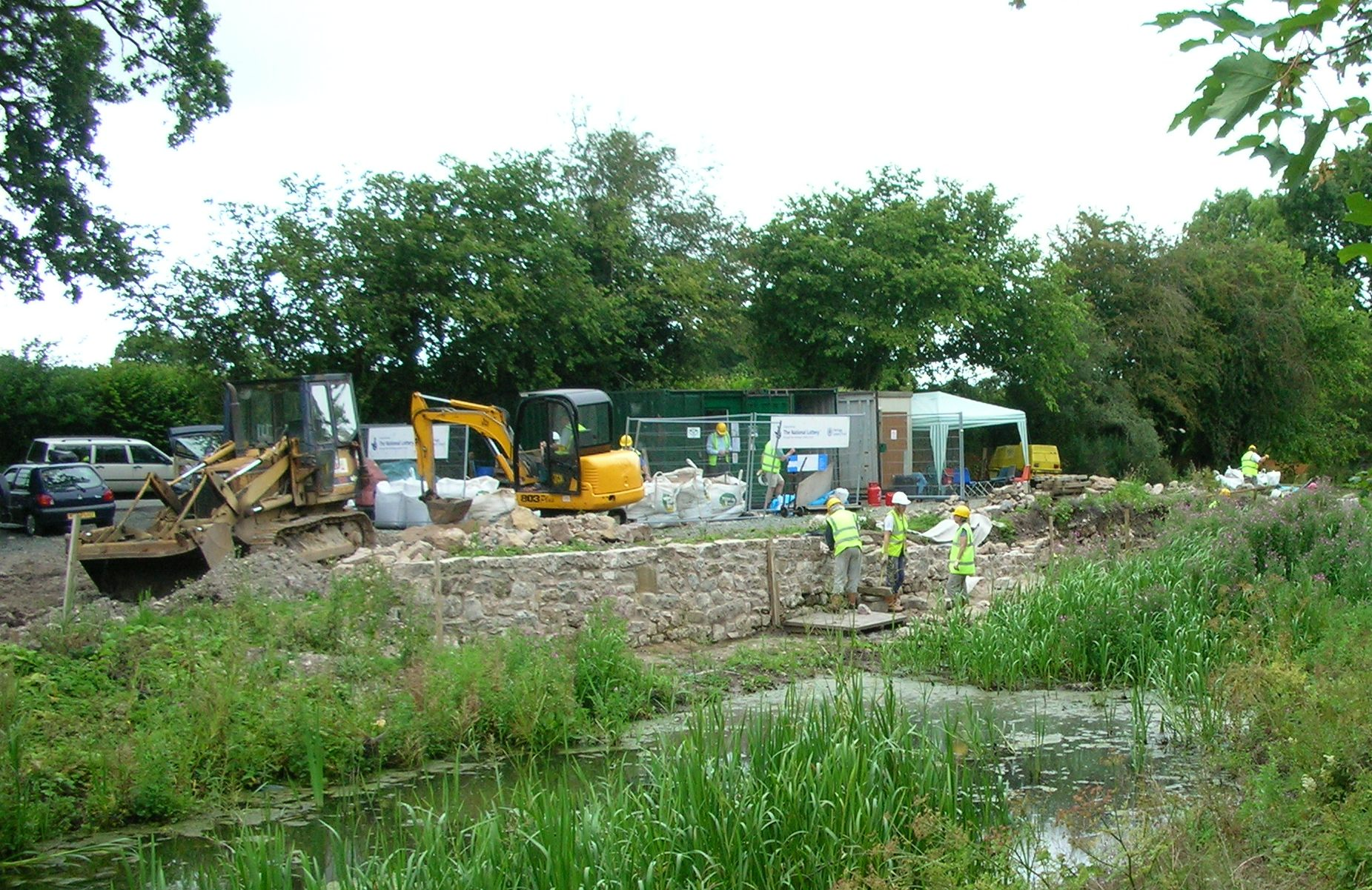 Restoration underway of a derelict part of the Montgomery Canal at Crickheath Wharf, near Llynclys, Shropshire, image cropped to focus on restoration